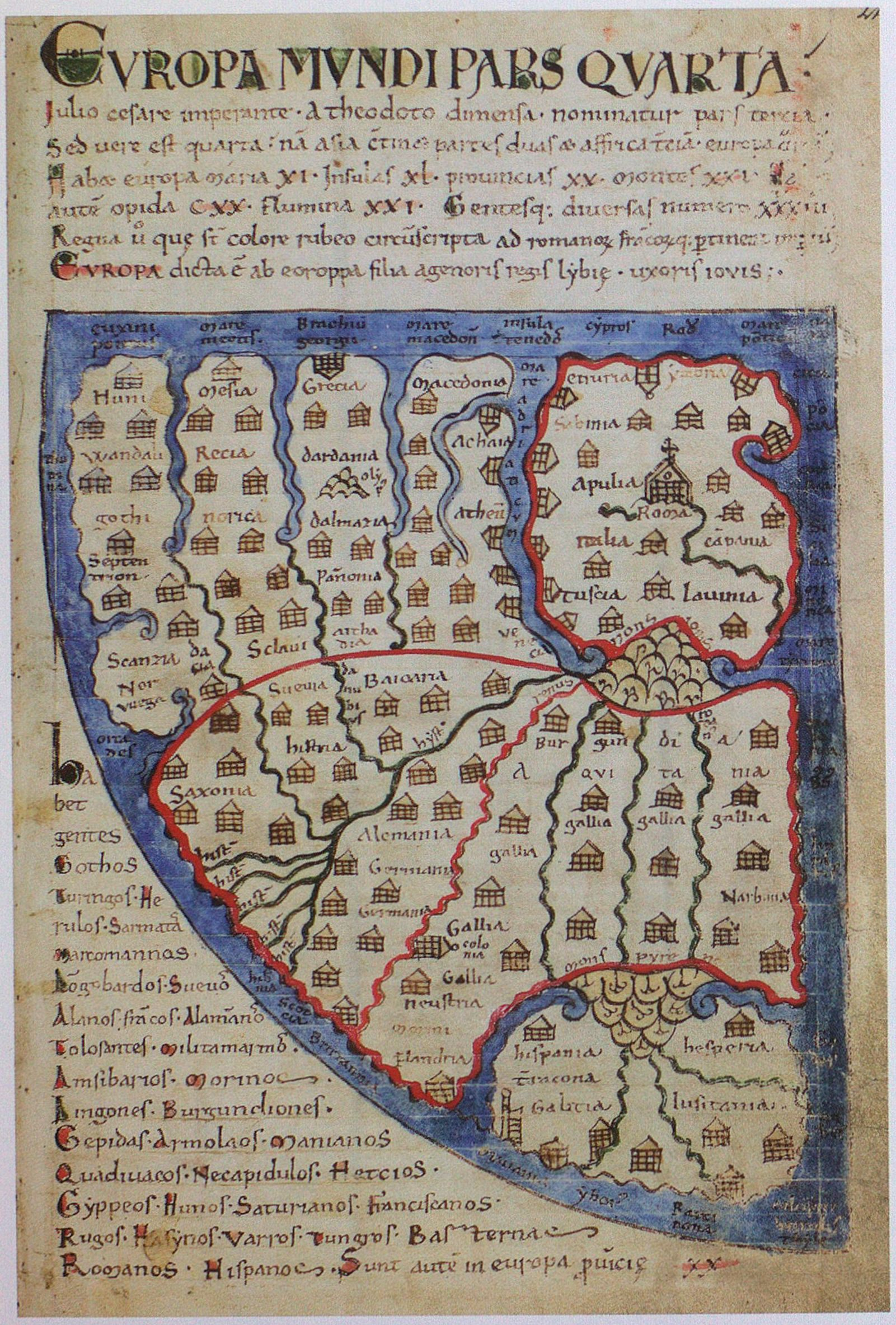 A map of Europe in the „Liber floridus“: Ghent, Universiteitsbibliotheek, Ms. 92, fol. 241r.